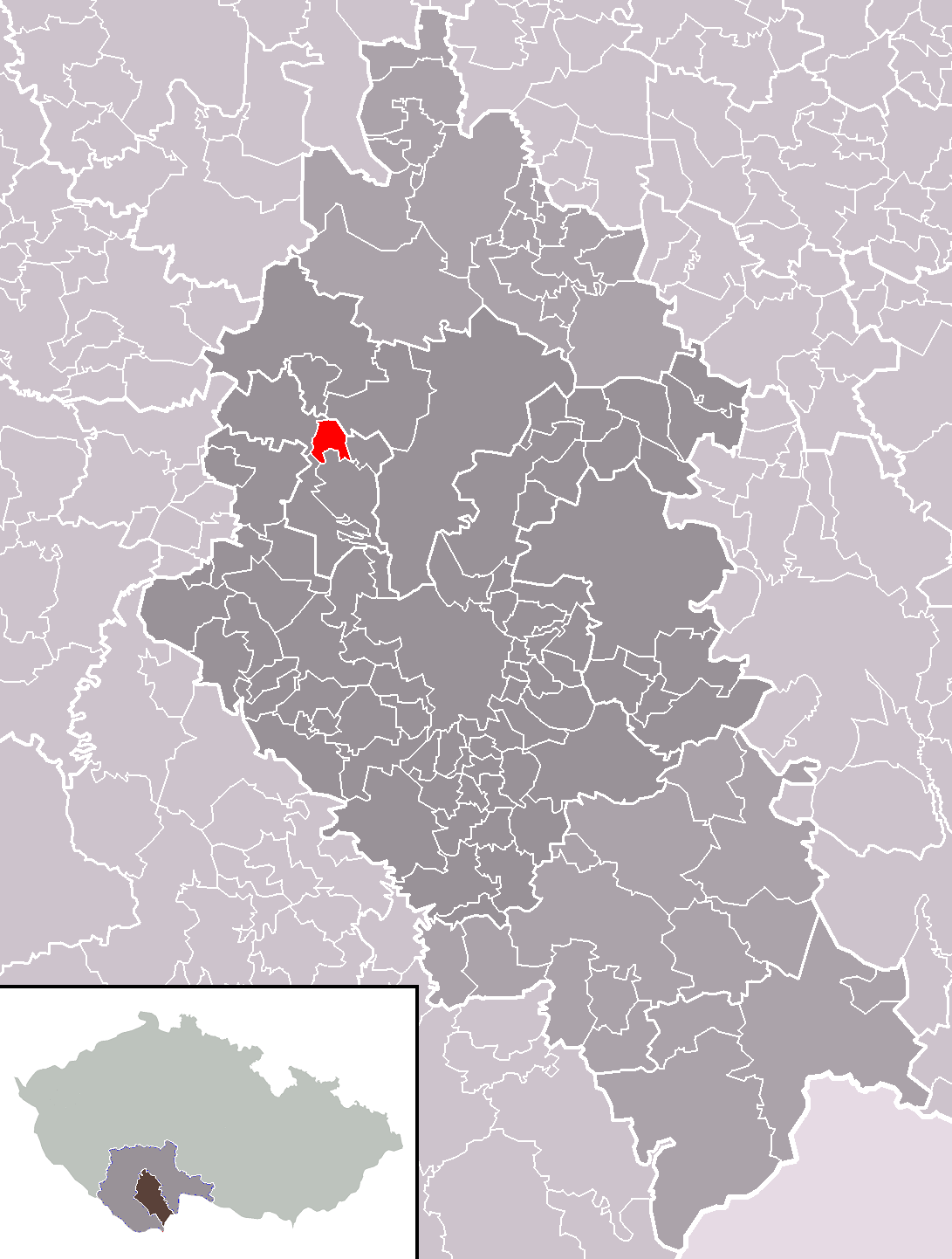 Location of Mydlovary municipality within České Budějovice District and administrative area of České Budějovice as a Municipality with Extended Competence.